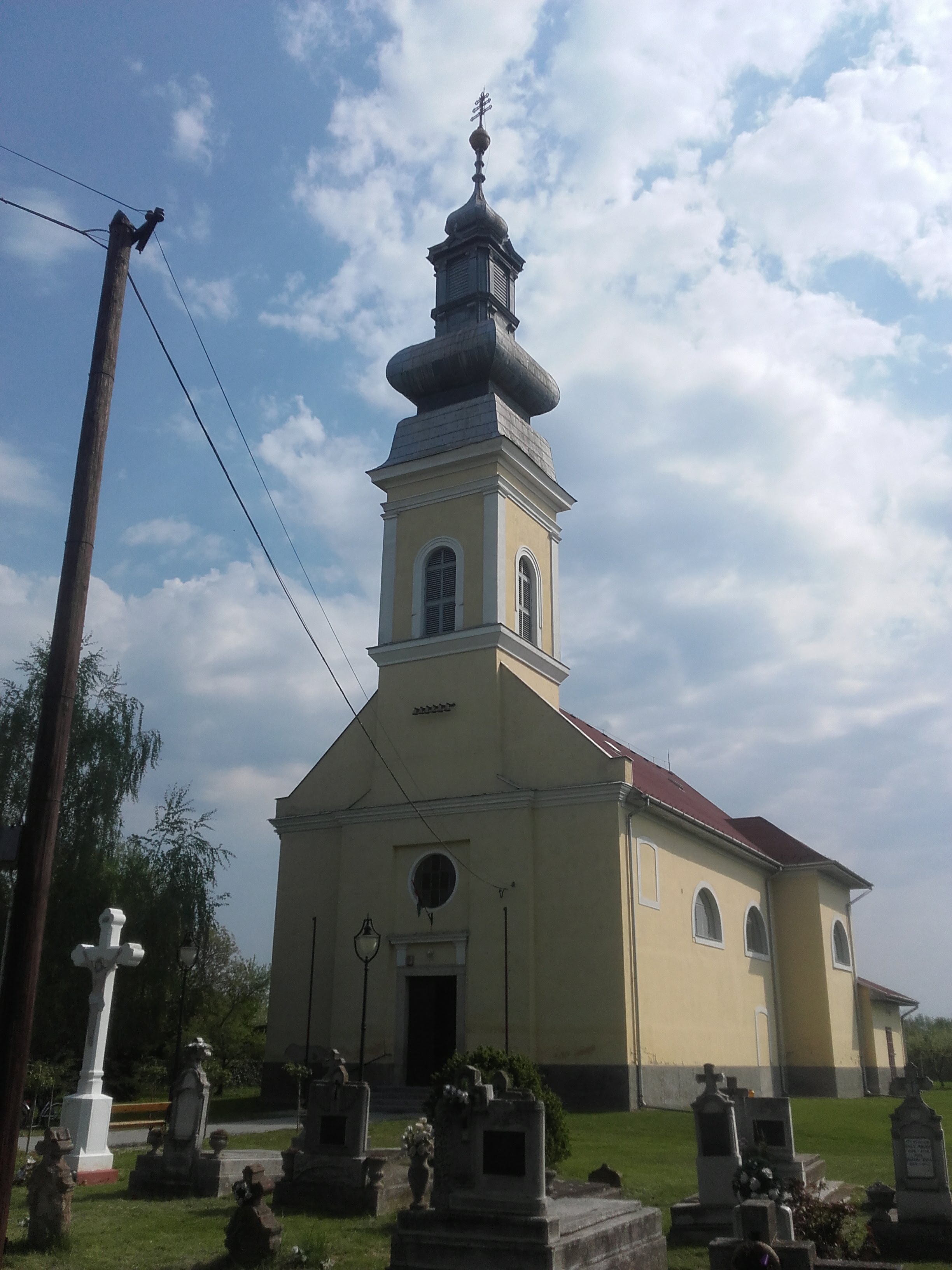 Greek Catholic church in Sajópetri, Hungary, built in 1781.